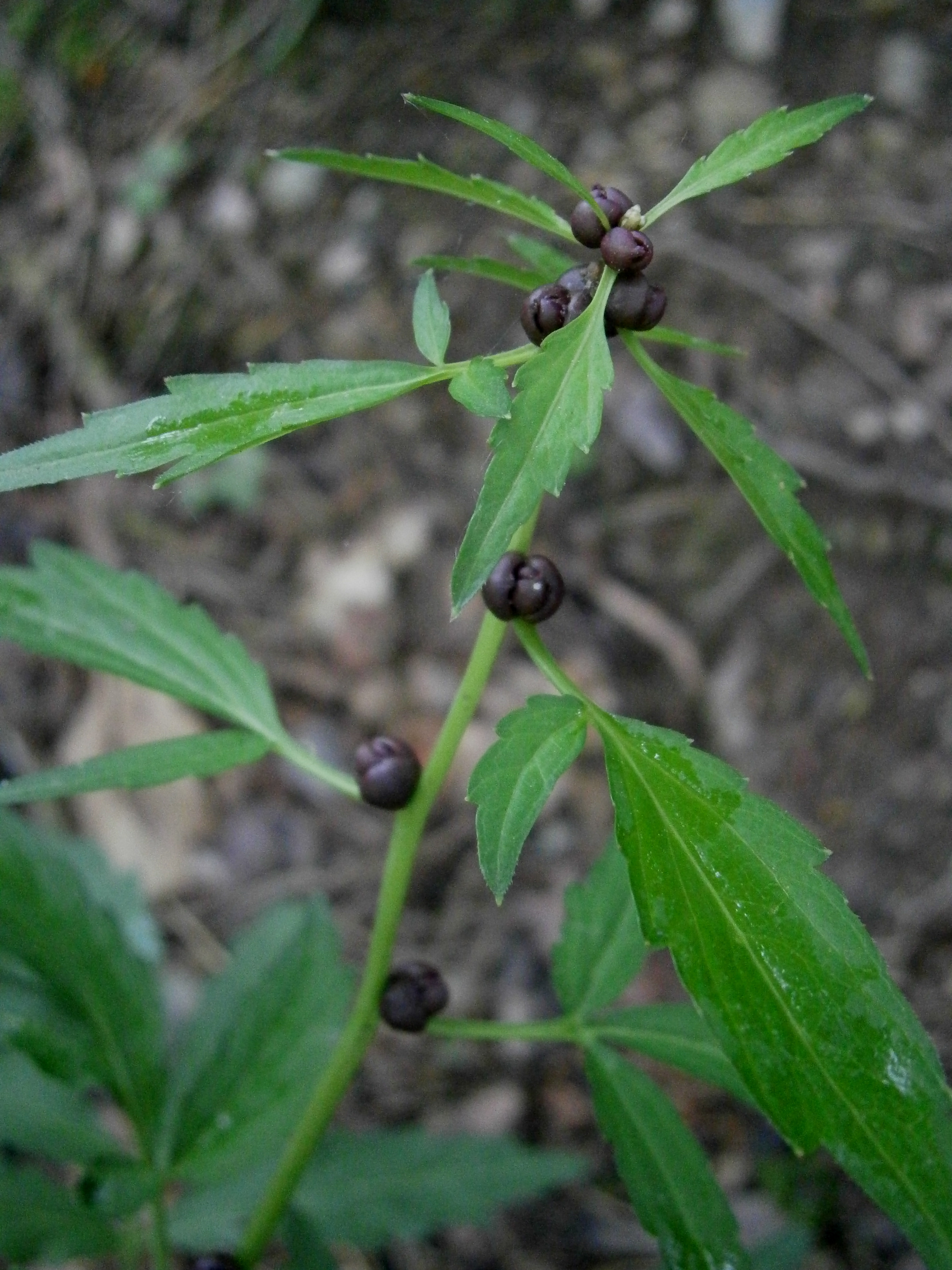 Cardamine bulbifera with only bulblets